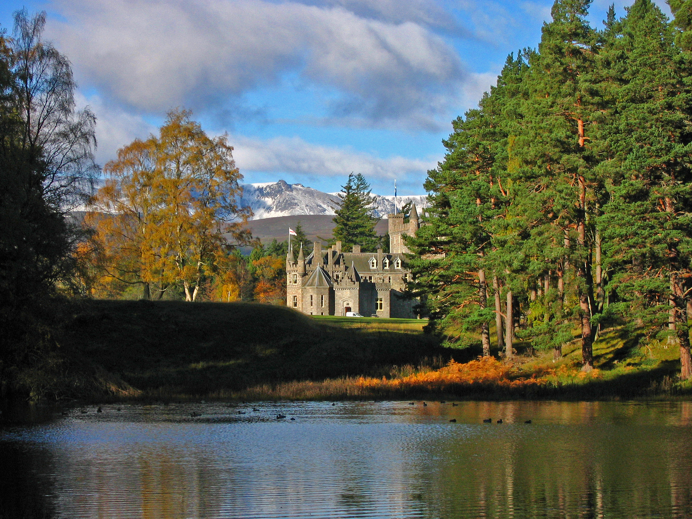 Invercauld House The House dates from the 13th century, and is the seat of Capt. A. Farquharson, chief of the Farquharson clan, of which my family name is a sept. The House lies next to the river Dee, near Braemar Castle and Balmoral Castle. The snow covered mountain in the background is Ben-a-Bhuird, taken from a loch near the House.